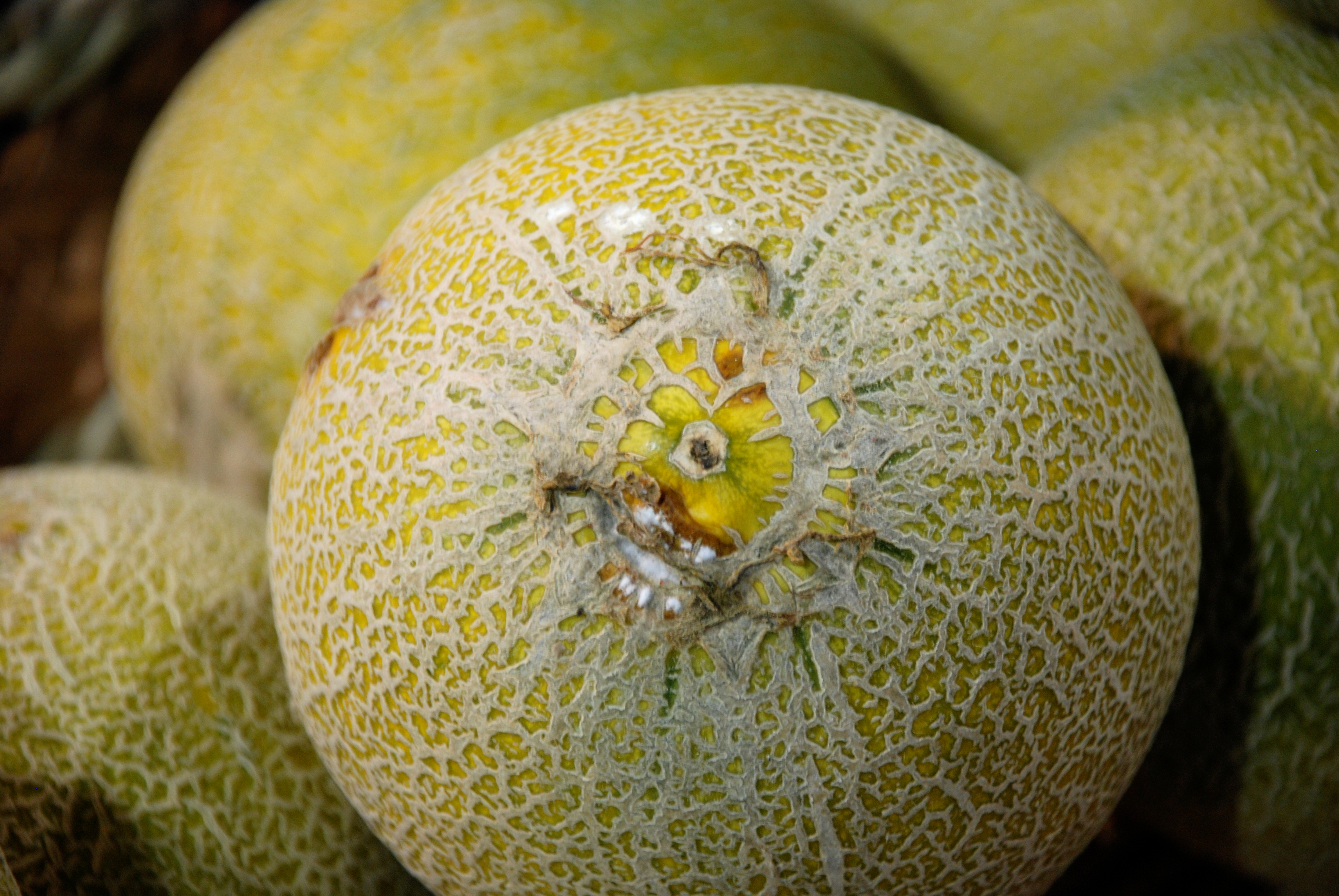 As used here